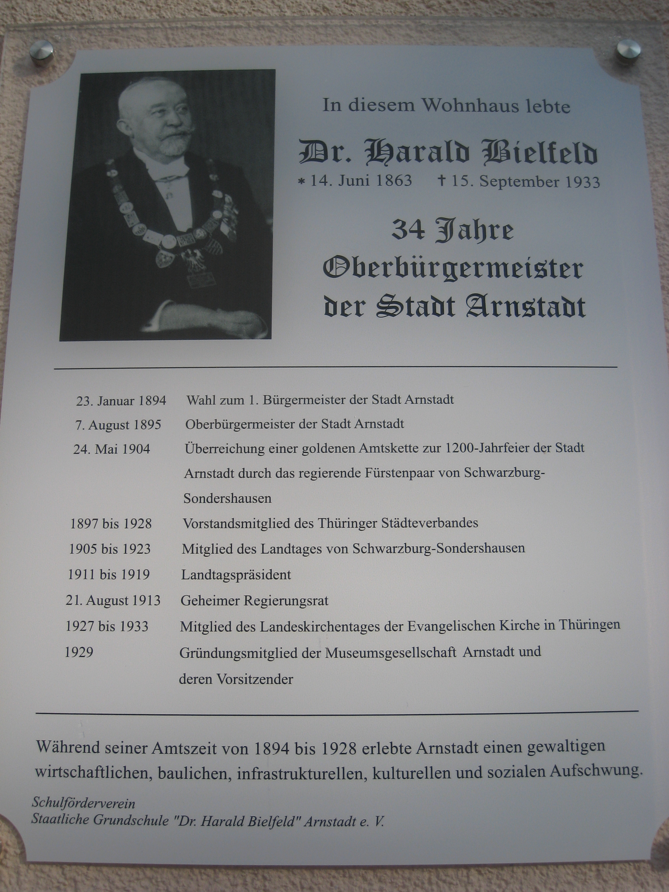 Plaque at the dwelling-house of Harald Bielfeld in Hohe Bleiche 2, Arnstadt